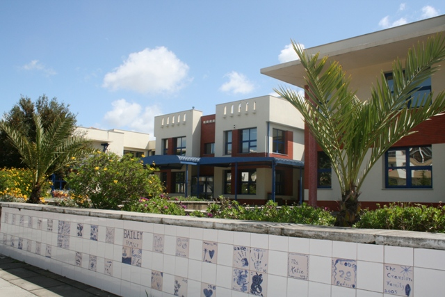 Photo of CAISL school